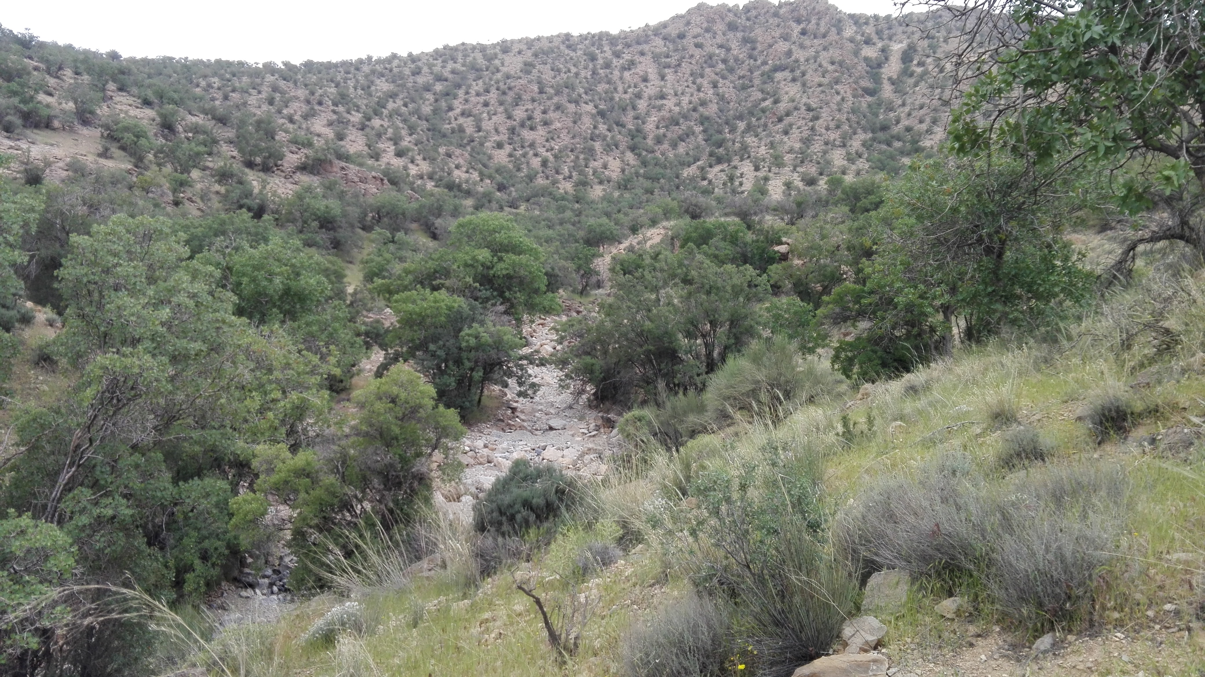 جنگل سه چاه در شرق پارک ملی خبر واقع در جنوب شهرستان بافت